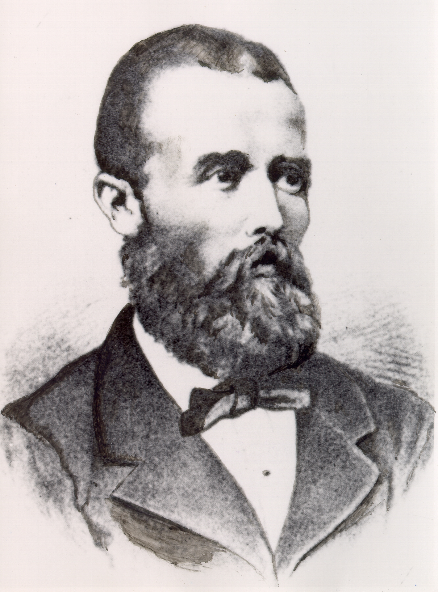 Portrait of Simon Jenko, a poet and writer from Slovenia (1835 - 1869)